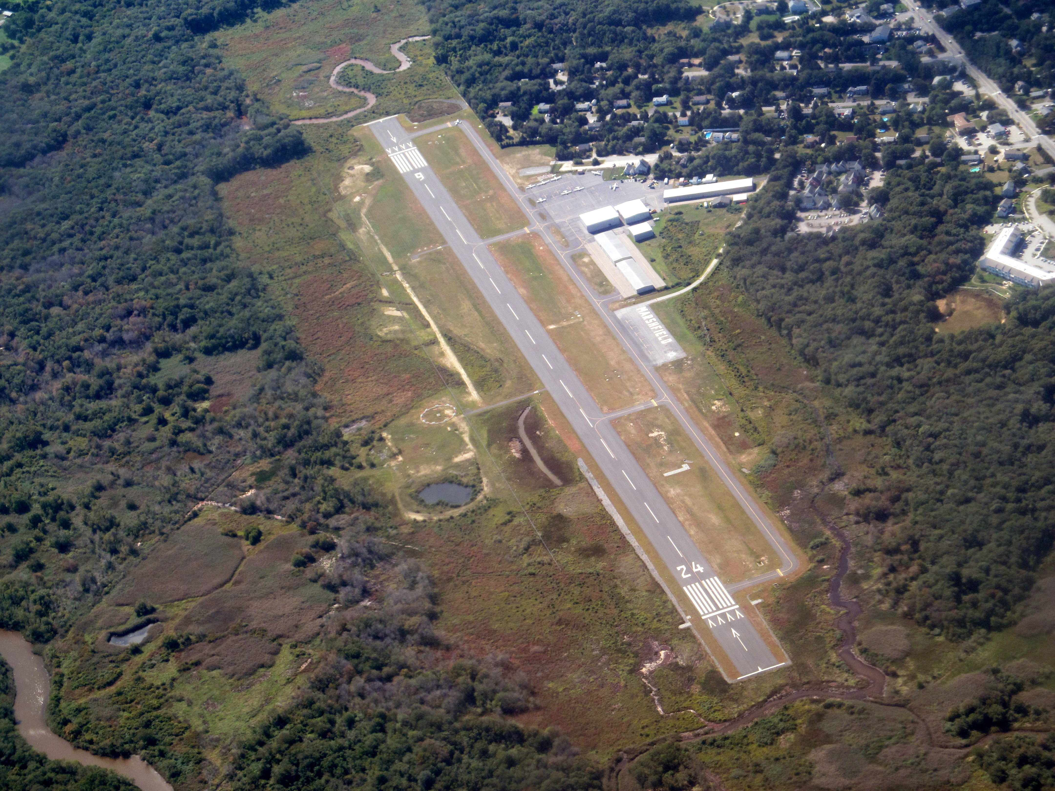 Marshfield Municipal Airport viewed from an airplane descending into Logan Airport in September 2015